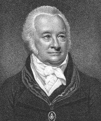 William Preston - from 12th (1812) edition of his book "Illustrations of Masonry"